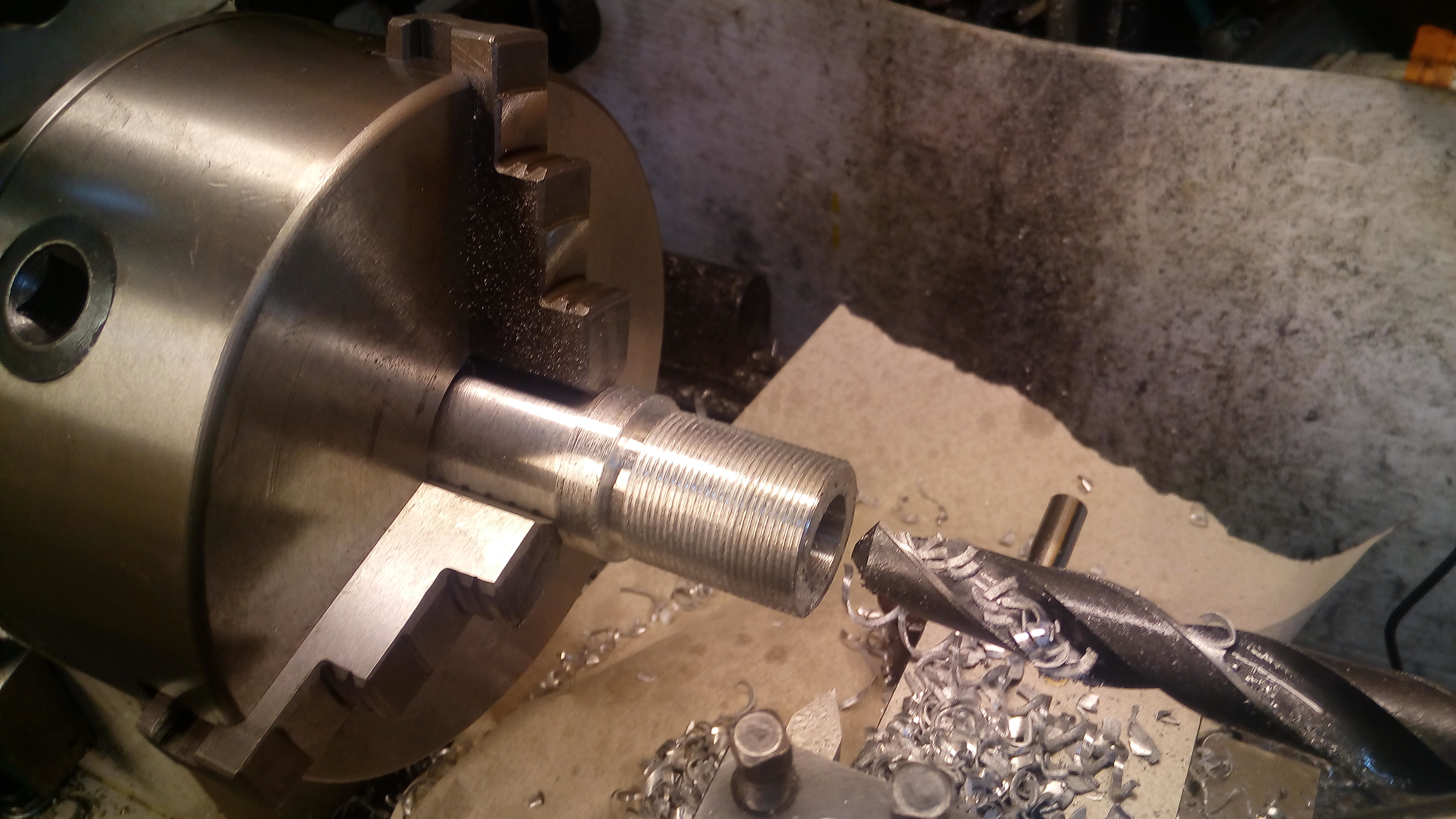 Tailstock mounted drill bit used for center drilling with a lathe.